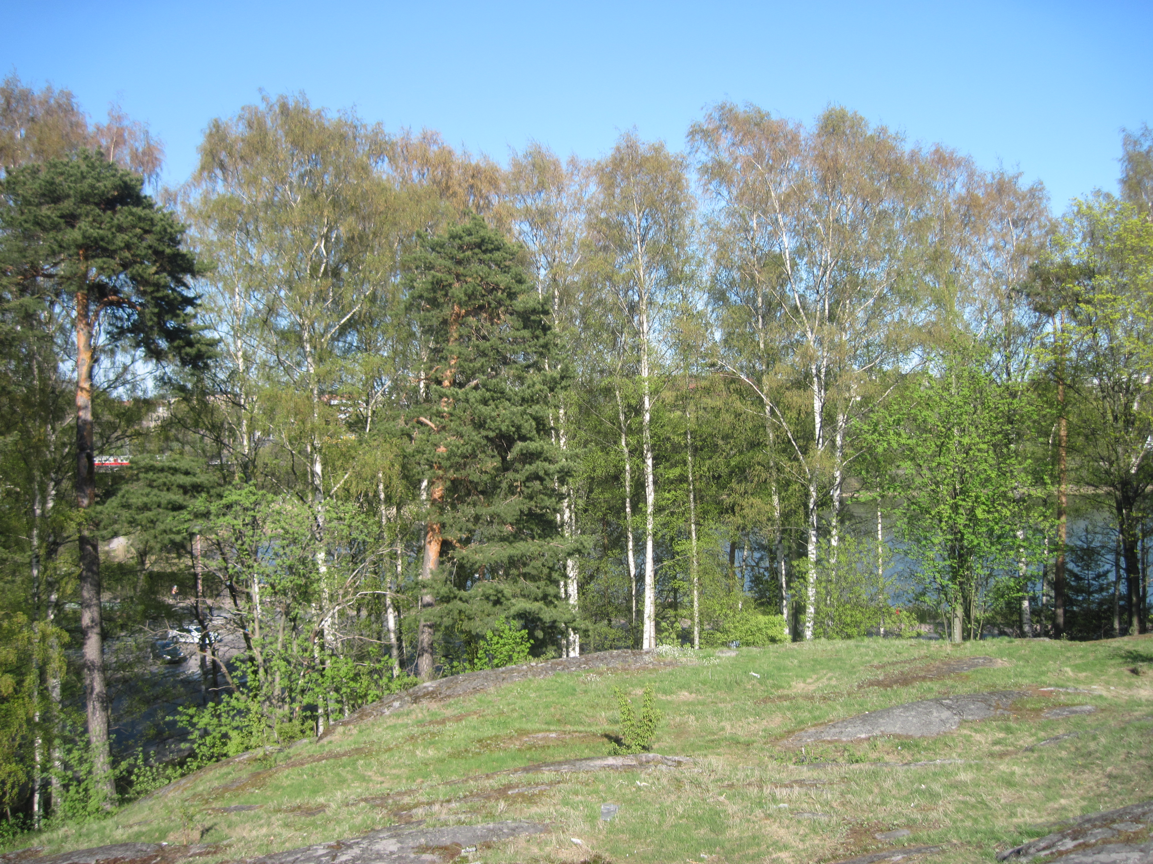 View from Mäntymäki, Helsinki to East